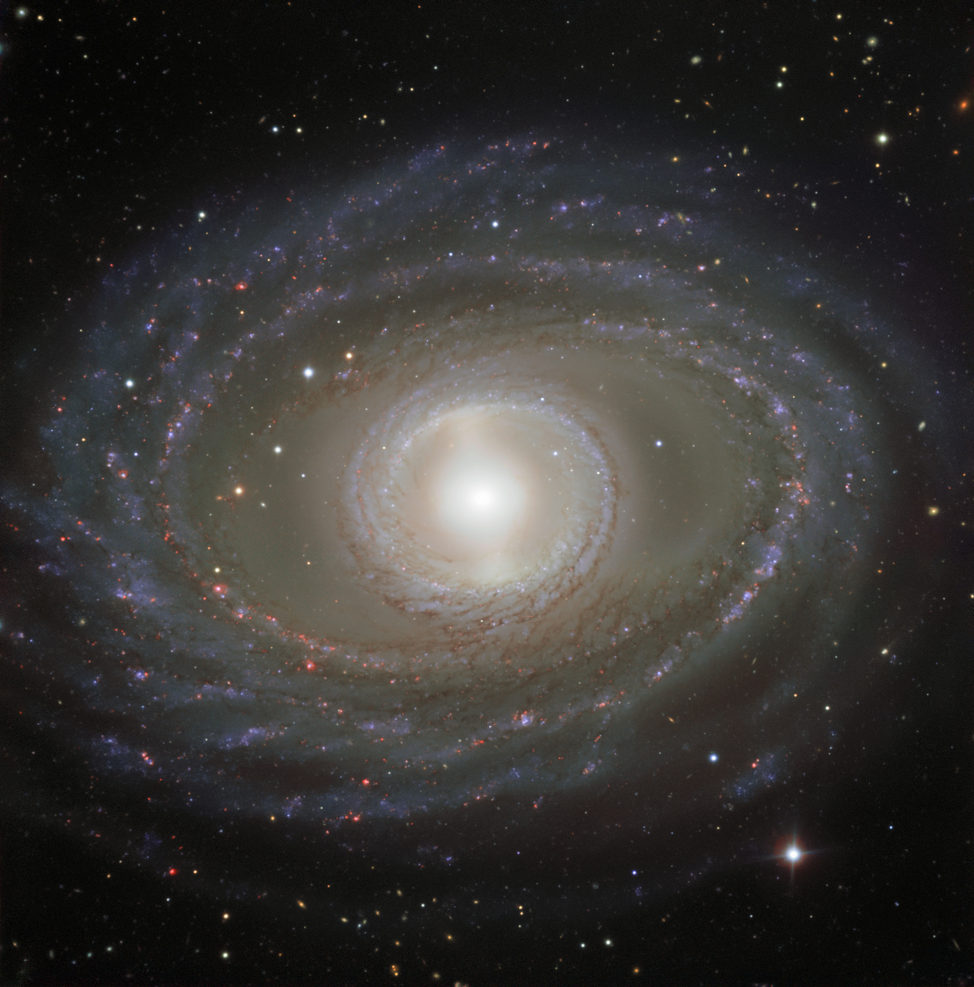 This week’s picture shows spectacular ribbons of gas and dust wrapping around the pearly centre of the barred spiral galaxy NGC 1398. This galaxy is located in the constellation of Fornax (The Furnace), approximately 65 million light-years away. Rather than beginning at the very middle of the galaxy and swirling outwards, NGC 1398’s graceful spiral arms stem from a straight bar, formed of stars, that cuts through the galaxy’s central region. Most spiral galaxies — around two thirds — are observed to have this feature, but it’s not yet clear whether or how these bars affect a galaxy’s behaviour and development. This image comprises data gathered by the FOcal Reducer/low dispersion Spectrograph 2 (FORS2) instrument, mounted on ESO’s Very Large Telescope (VLT) at Paranal Observatory, Chile. It shows NGC 1398 in striking detail, from the dark lanes of dust mottling its spiral arms, through to the pink-hued star-forming regions sprinkled throughout its outer regions. This image was created as part of the ESO Cosmic Gems programme, an outreach initiative to produce images of interesting, intriguing or visually attractive objects using ESO telescopes, for the purposes of education and public outreach. The programme makes use of telescope time that cannot be used for science observations. All data collected may also be suitable for scientific purposes, and are made available to astronomers through ESO’s science archive.